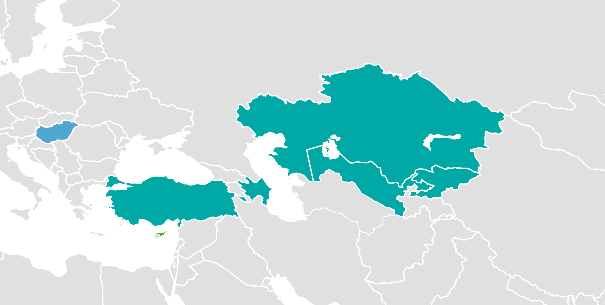 Members and observer member of the Turkish Council. Source for member states: Basis for map